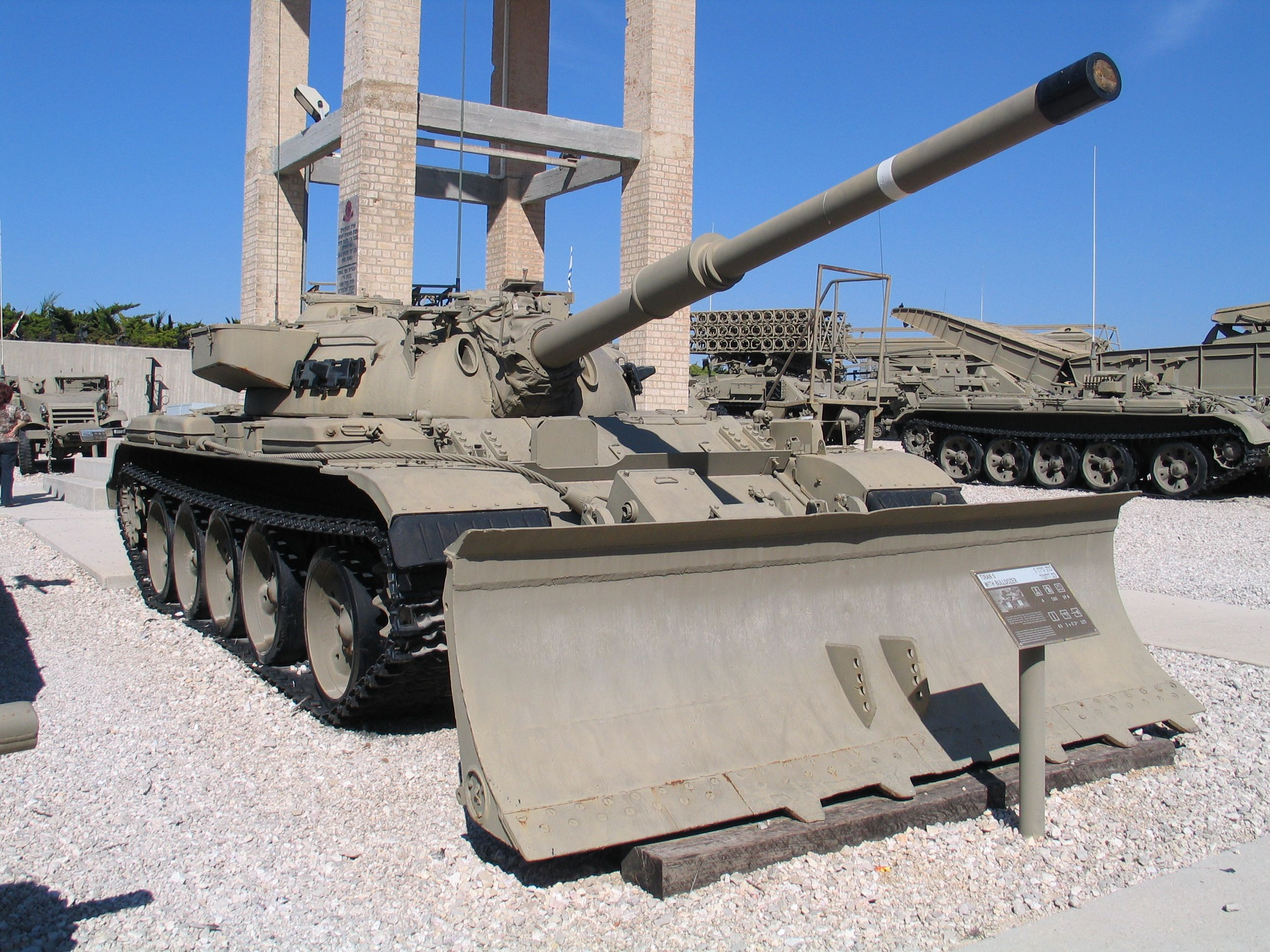 Tiran-5, Israeli upgraded Soviet T-55 MBT (note the 105 mm gun) fitted with a dozer blade in Yad la-Shiryon Museum, Israel.